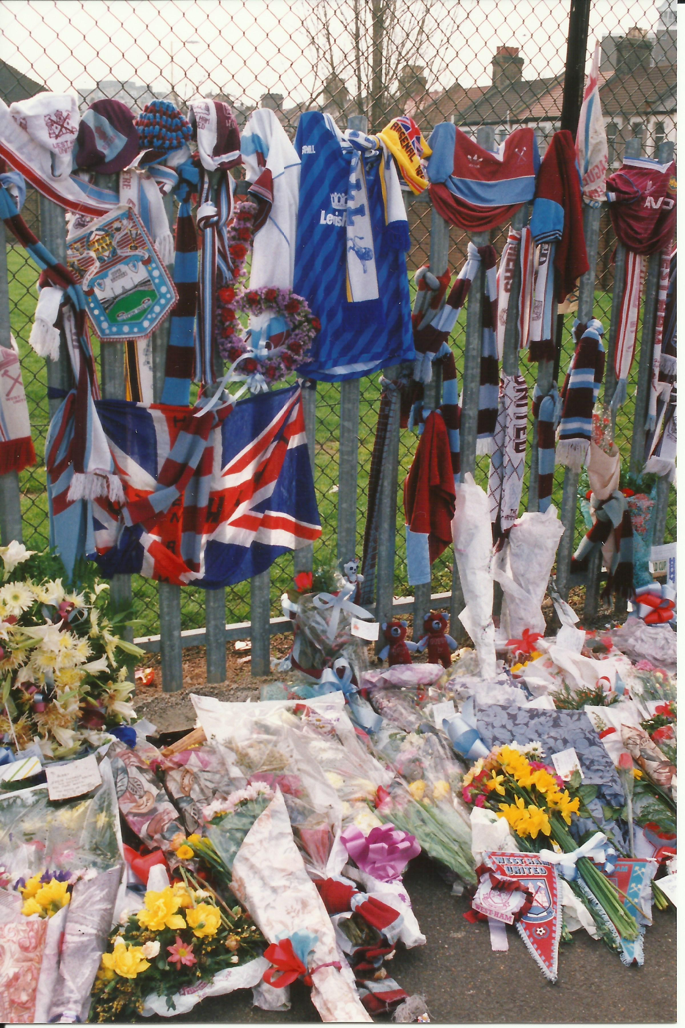 Fans' tokens of rememberance, left at The Boleyn Ground for Bobby Moore before the first home game after his death - including those from West Ham rivals, Millwall.